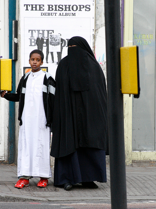 Women of London